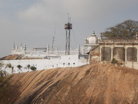 Side view of the Dargah of Hazrat Sulthan Sikandhar Badhusha Dargah shaheed Razi.. dargah